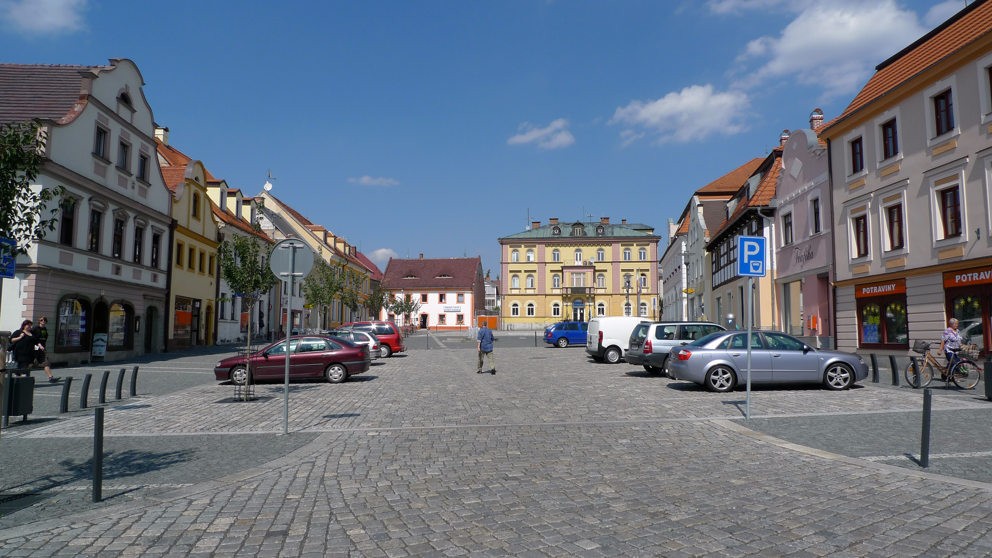 Upper Square in Hrádek nad Nisou, Czech Republic